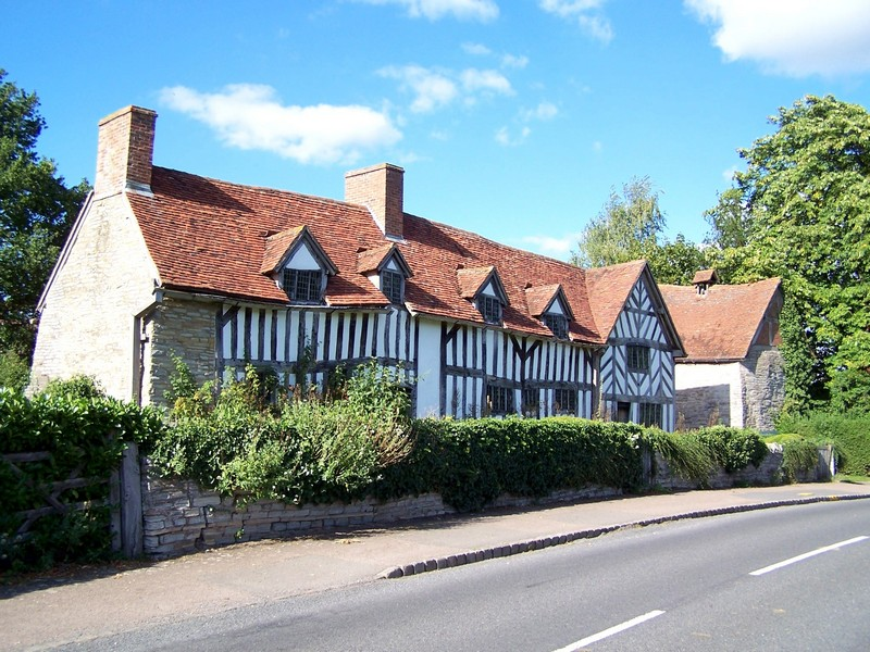 Mary Ardens House, Wilmcote, Warwickshire, England